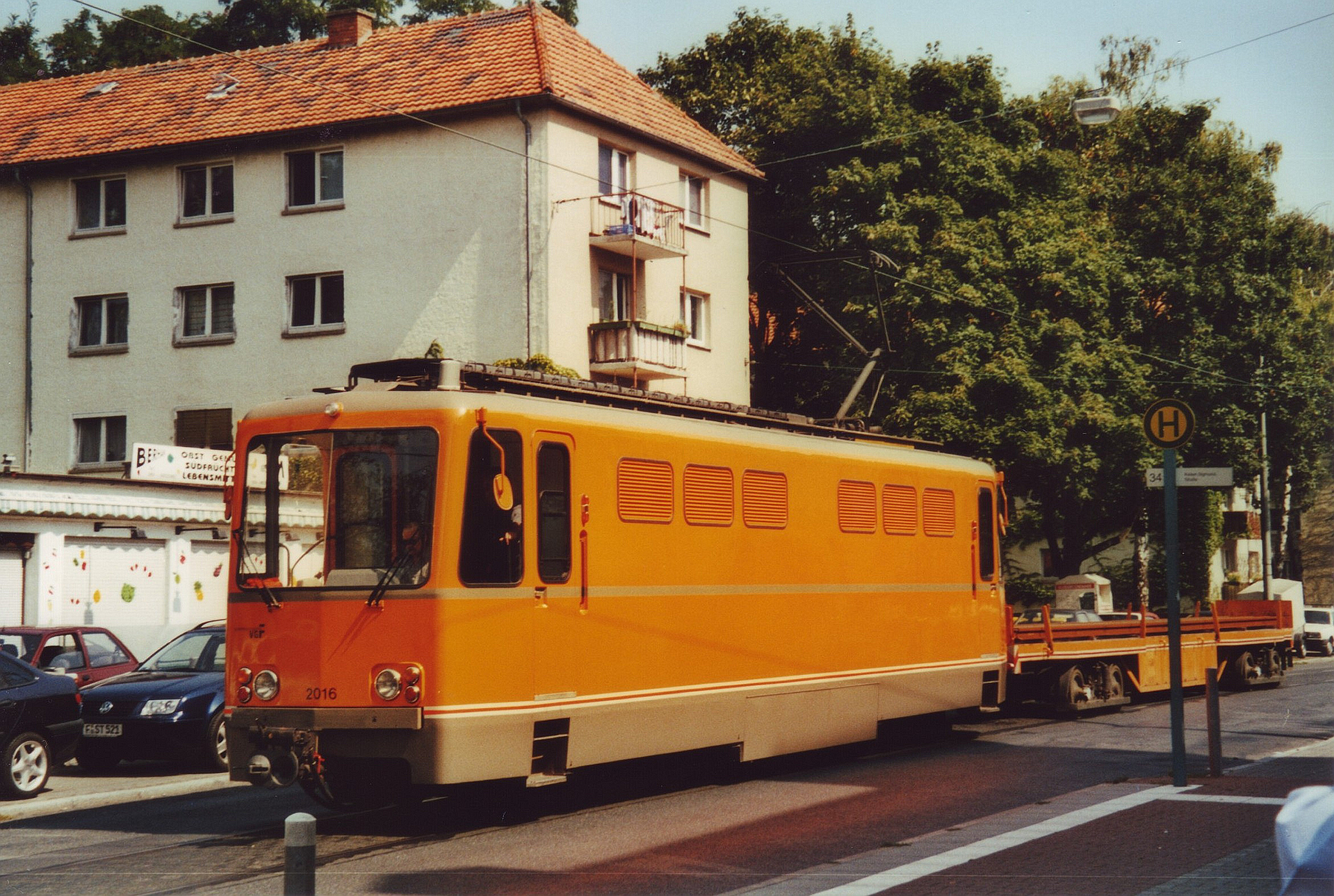 VGF battery-locomotive 2016 at Frankfurt am Main-Frankfurt-Dornbusch in the Marbachweg at the bus stop Kaiser-Siegmund-Straße, August 2001